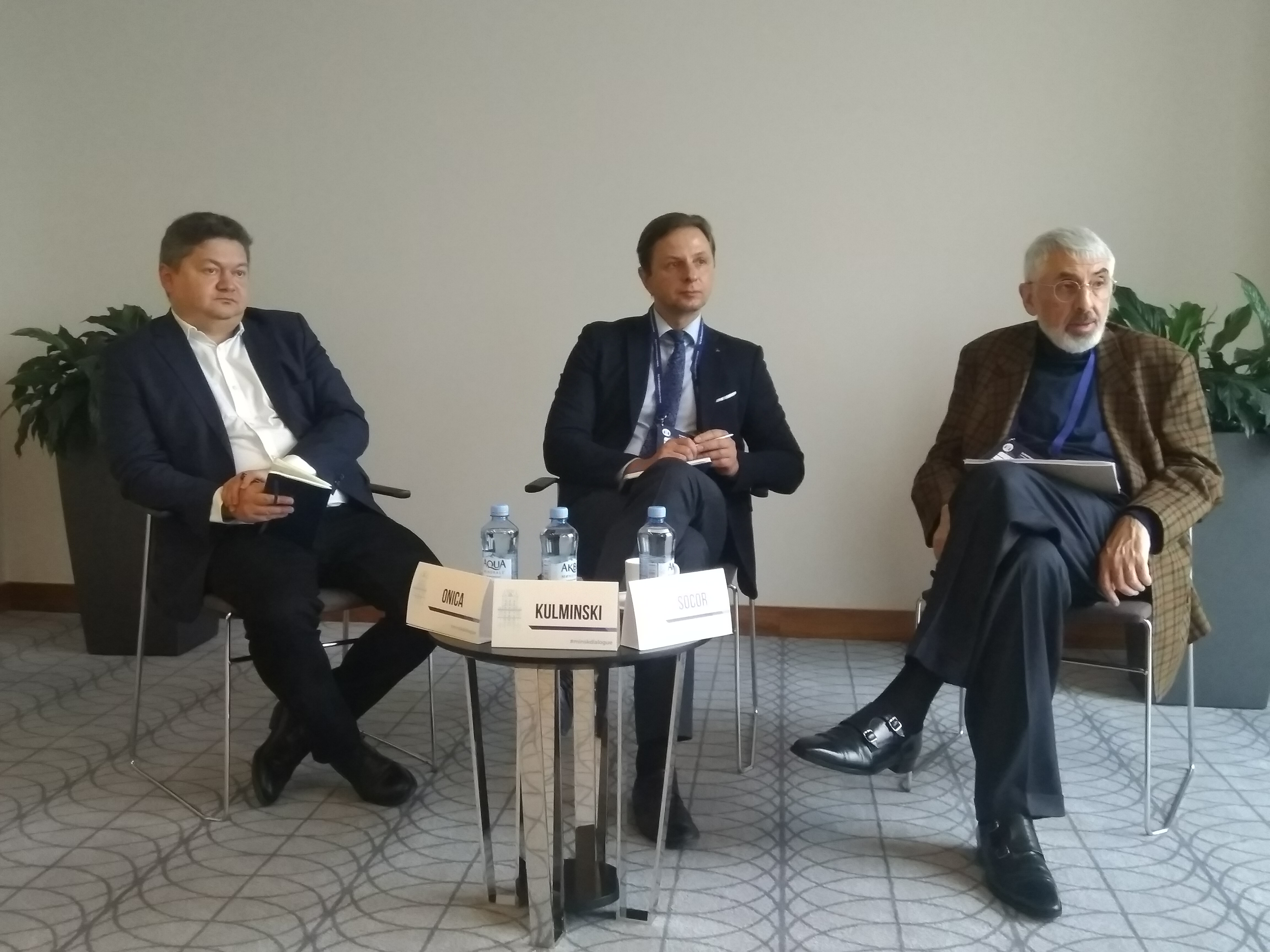 Timur Onica, Vladislav Kulminski, Vladimir Socor at the Minsk Dialogue 2019